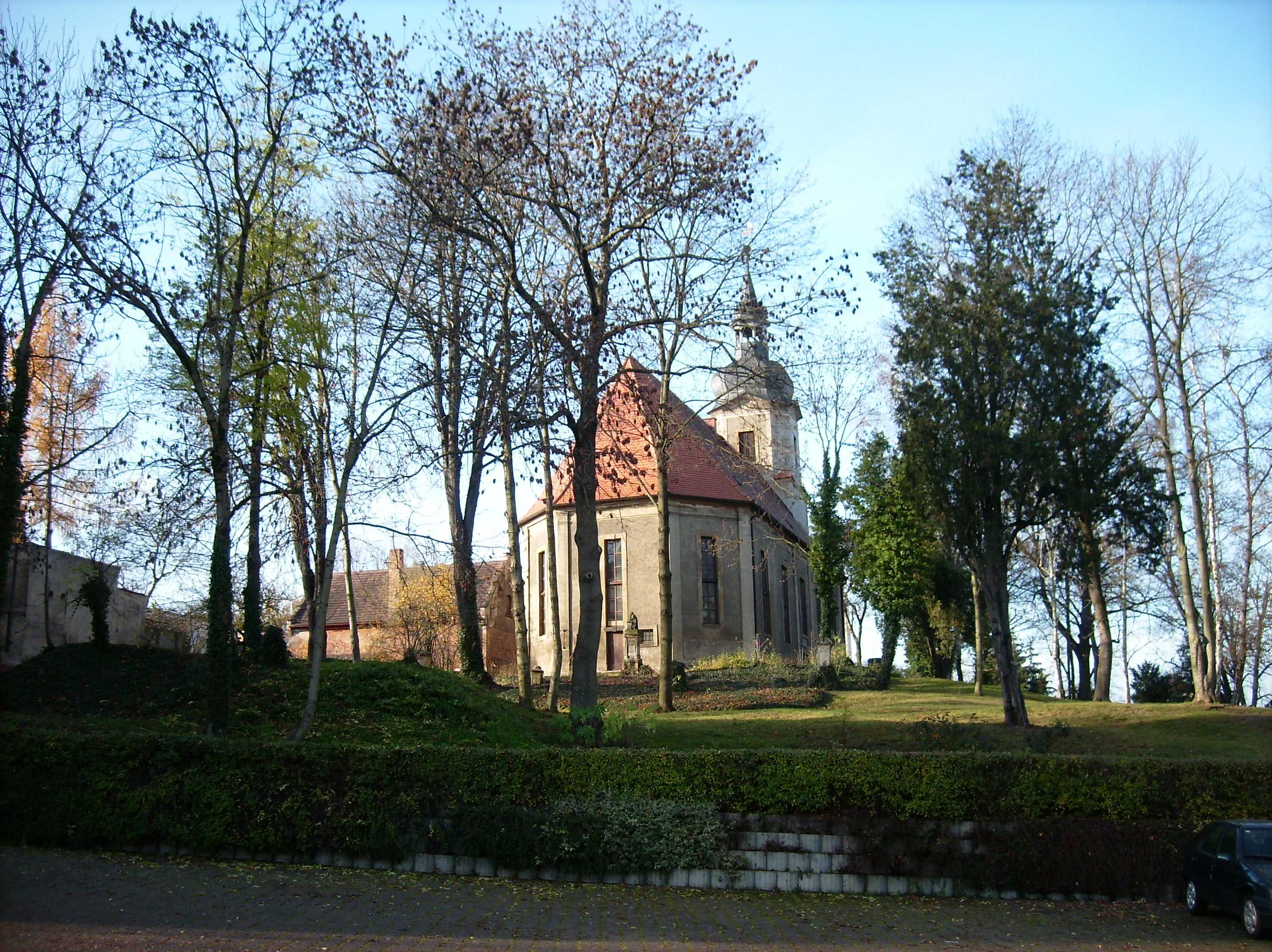 Saint Stephen Church, Zeitz (district of Burgenlandkreis, Saxony-Anhalt)